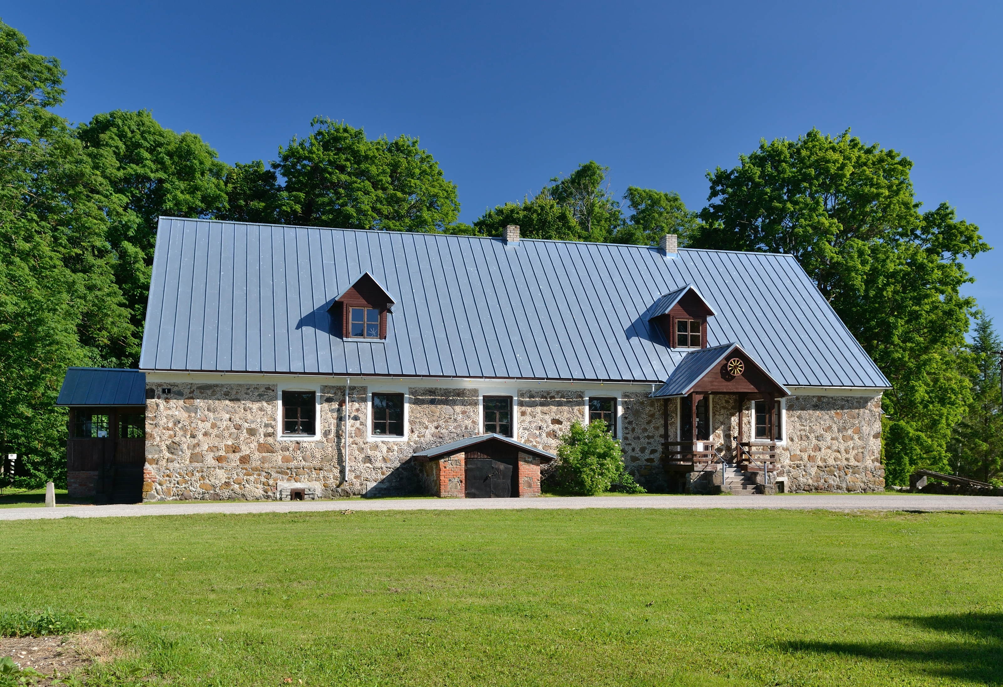 Tabivere manor steward's house